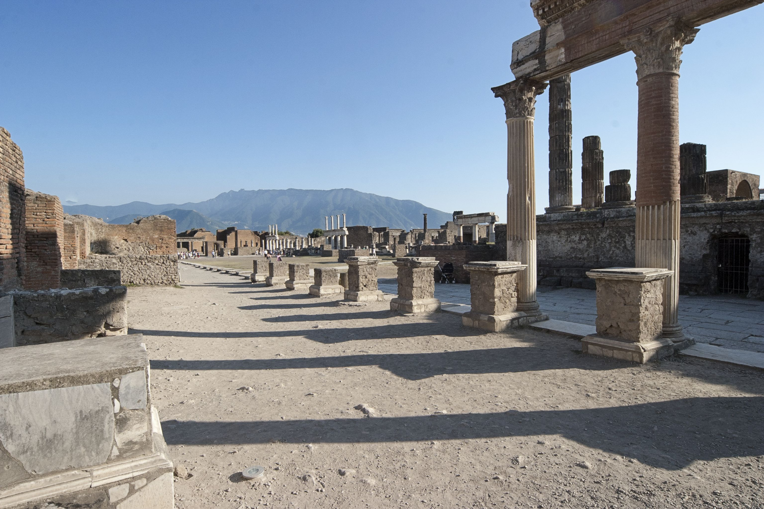 80045 Pompeii, Metropolitan City of Naples, Italy